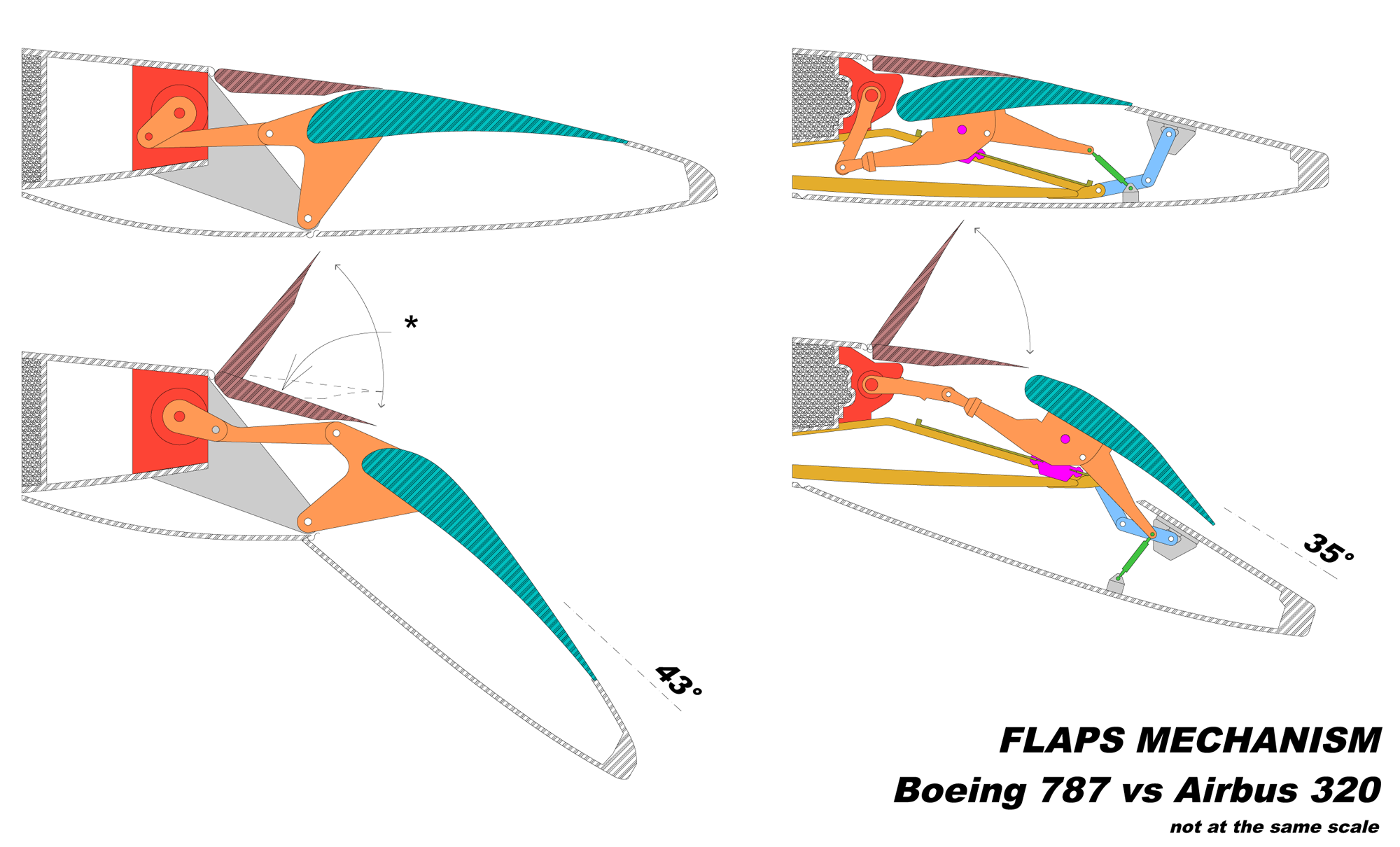 Comparison of flaps mechanisms of Boeing 787 (left) and Airbus A320 (right)